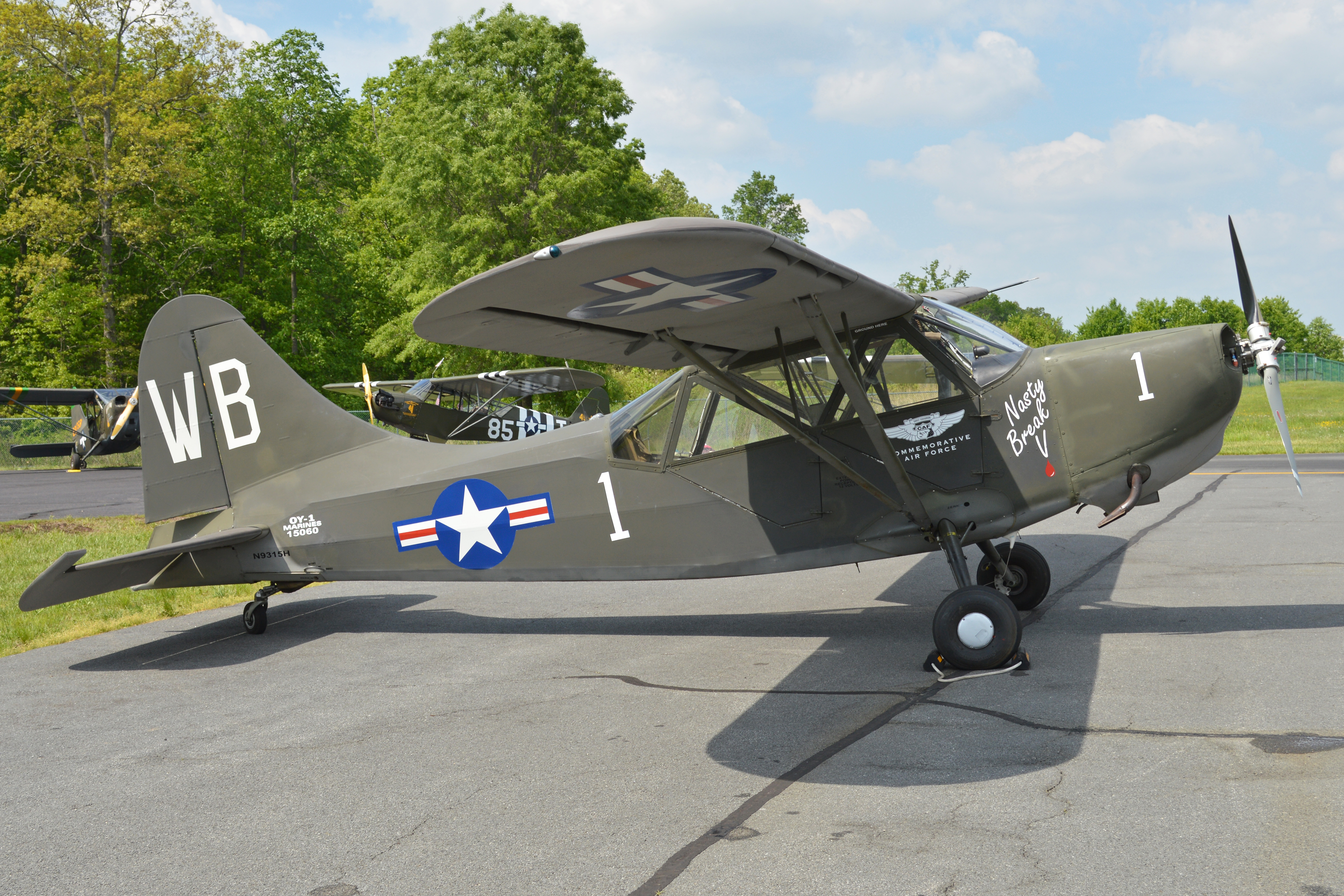 c/n 76-263 Full US military serial 42-15060 Also flew for the US Coast Guard as ‘5060’ In false markings representing a US Marine operated OY-1 Seen after taking part in the Arsenal of Democracy Flyover Culpeper Regional Airport, Virginia, USA 8th May 2015